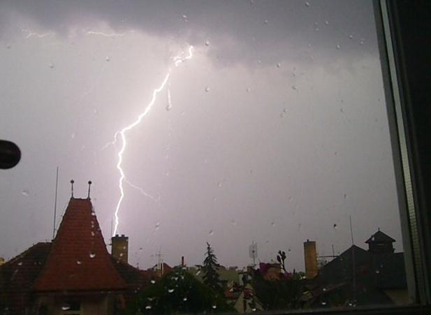 Lightning from the shelf cloud